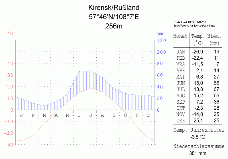 climate chart in the format by Walther and Lieth, metric, °Celsisus and millimeters, made with Geoklima 2.1